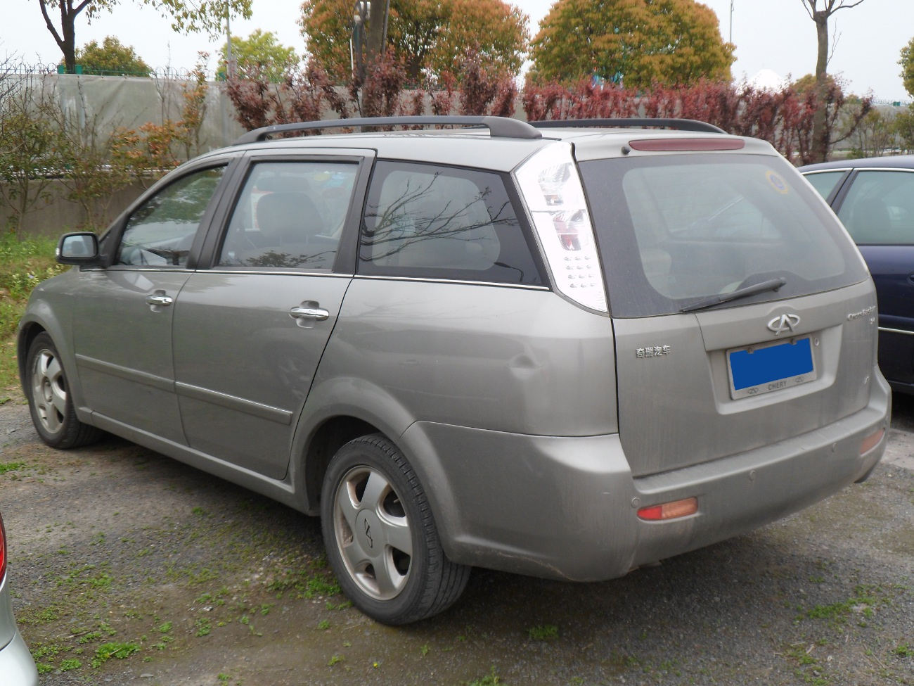 Chery Eastar Cross photographed in Anting, Shanghai municipality, China.